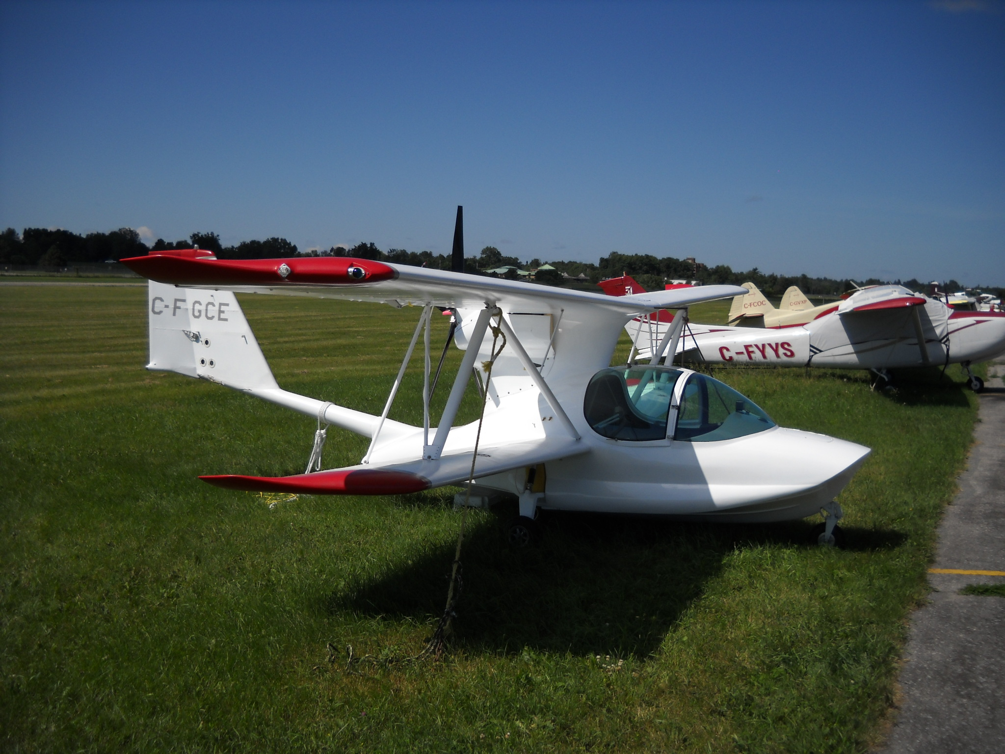 An AAC Seatstar at Rockcliffe Airport, Ottawa, Ontario, Canada. The aircraft was undergoing maintenance and the tailplane was not installed.